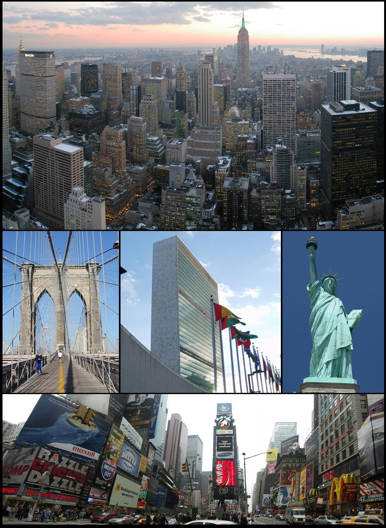 Montage of New Yor City images